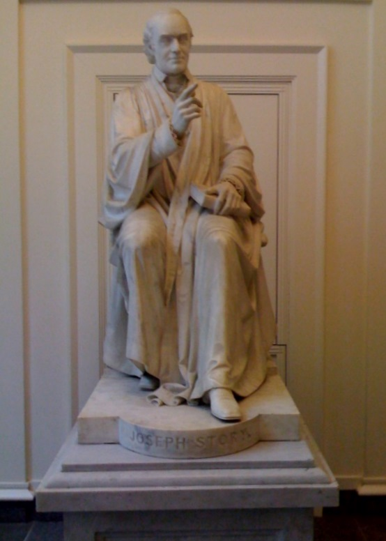 Statue of Joseph Story (1779-1845) sculpted by his son William Wetmore Story (1819-1895), on display in the lobby of Langdell Hall at Harvard Law School.